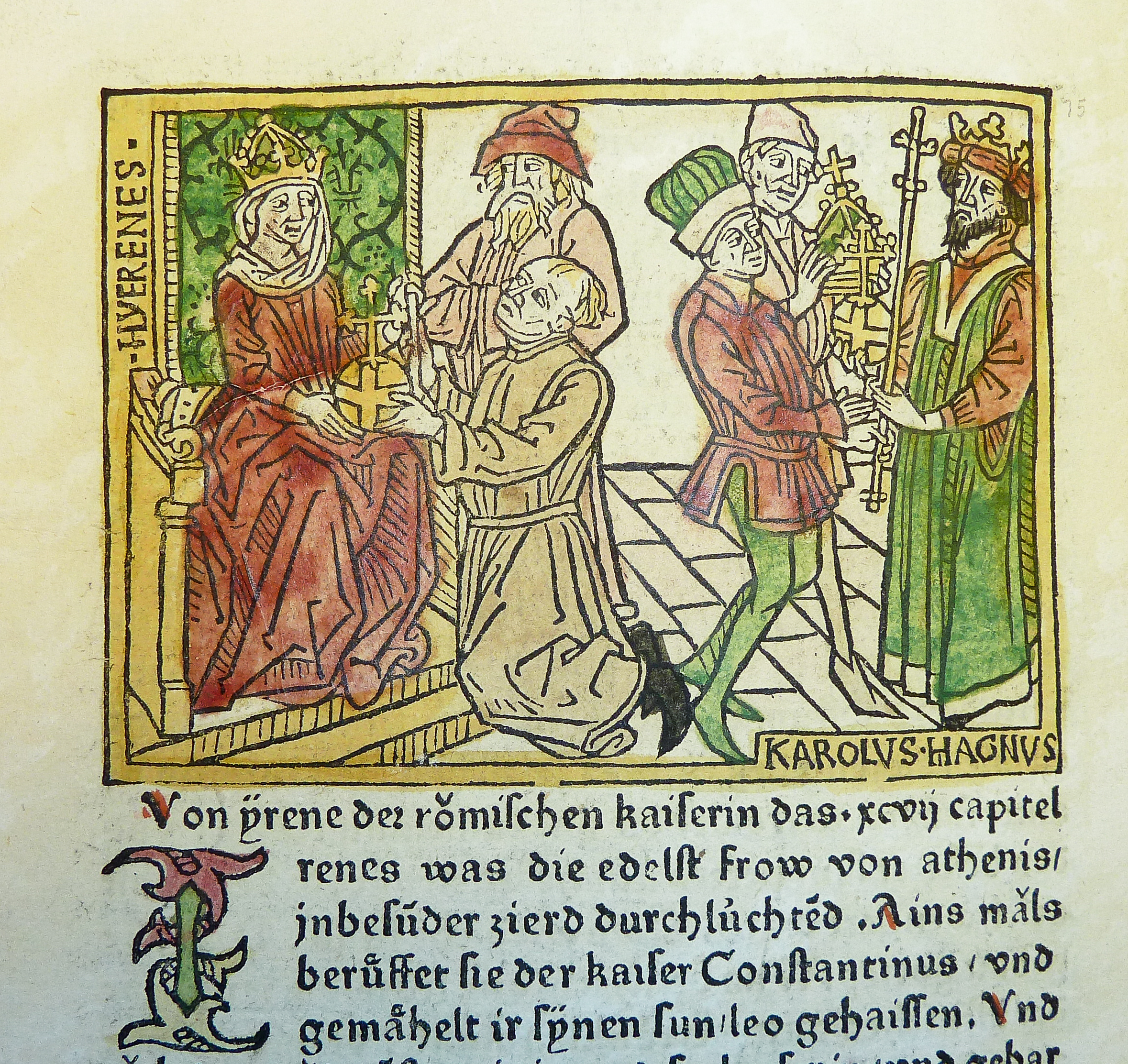 Woodcut illustration (leaf [p]5v, f. cxxxv) of Irene, Empress of the East, and Charlemagne, hand-colored in red, green, yellow and black, from an incunable German translation by Heinrich Steinhöwel of Giovanni Boccaccio's De mulieribus claris, printed by Johannes Zainer at Ulm ca. 1474 (cf. ISTC ib00720000). One of 76 woodcut illustrations (1 on leaf [e]8v dated 1473), each 80 x 110 mm., depicting scenes from the life of the women chronicled (for a full list of subjects, cf. W.L. Schreiber, Handbuch der Holz- und Metallschnitte des XV. Jahrhunderts (Nendeln: Kraus Reprints, 1969), no. 3506). "Pour la première moitie le nom se trouve inscrit à côte de la tête de chaque femme, pour le reste il es ajouté entre les deux réglettes. Il n'y en a que trois, qui n'ont qu'un seul trait carré."--Schreiber. Established form: Zainer, Johannes, ‡d d. 1541?. Established form: Irene, ǂc Empress of the East, ǂd 752?-803. Established form: Charlemagne, ǂc Emperor, ǂd 742-814. Penn Libraries call number: Inc B-720 All images from this book Penn Libraries catalog record